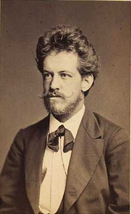 Otto Frederik Christian William Borchsenius (1844-1925), Danish writer and editor